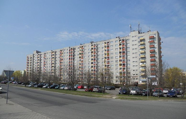 An apartment block on Piotrkowska stret in Opole with 1266 inhabitants, Poland